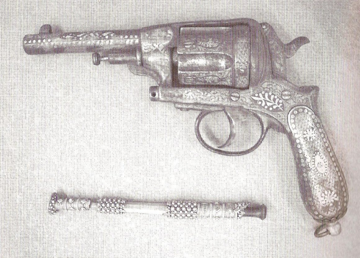 Revolver of Isa Boletini, Albanian revolutionary, currently exposed in the National Museum of Tirana